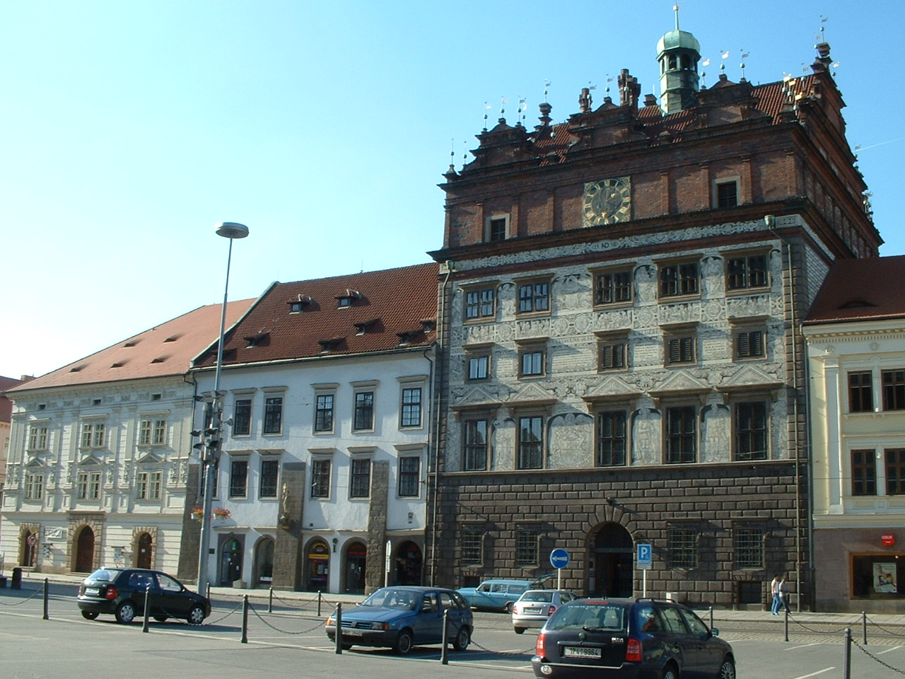 Renaissance City Hall of Pilsen